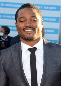 Ryan Coogler at the Deauville film festival